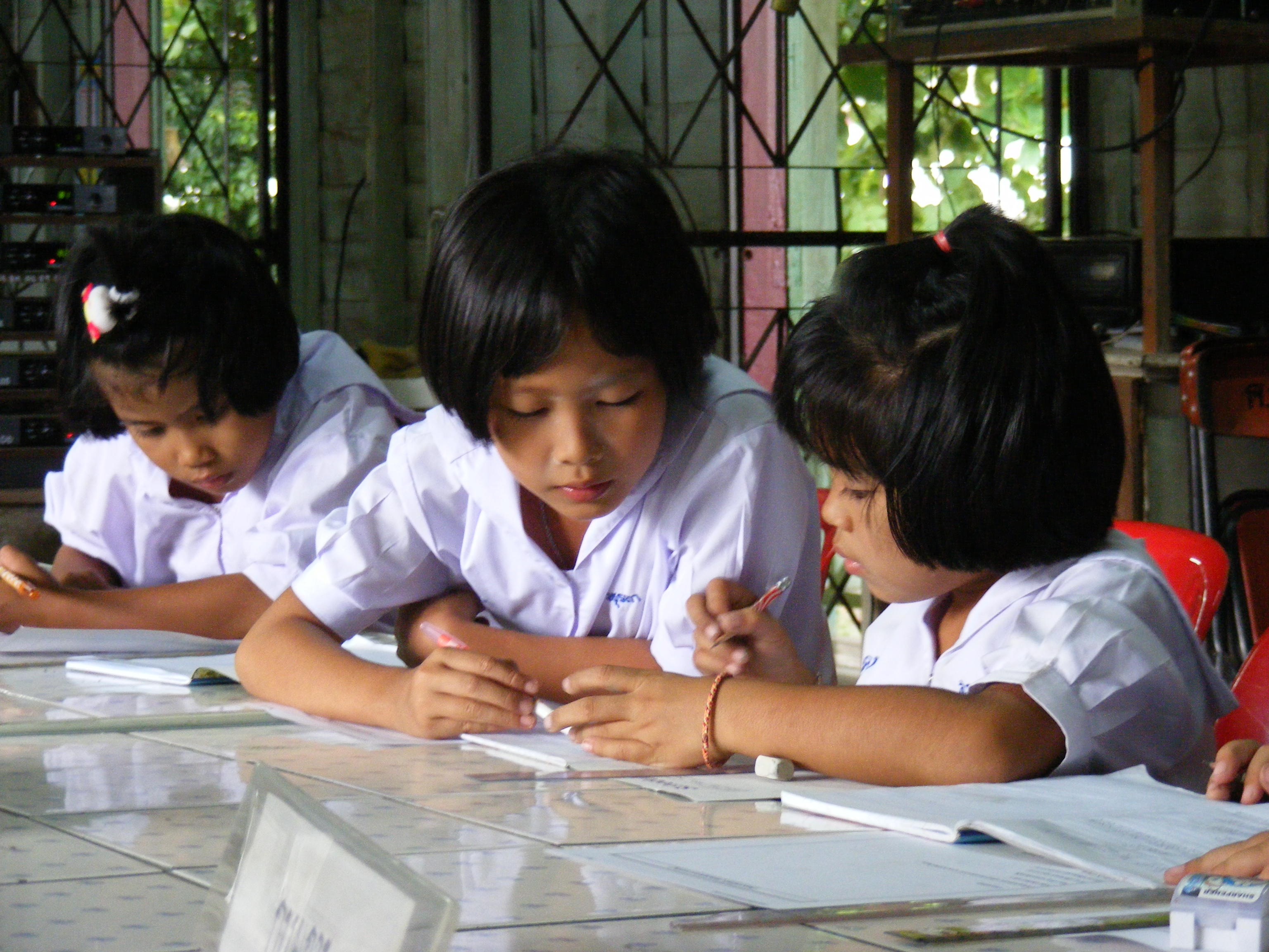 student in Ban Khung Taphao School.Location: Ban Khung Taphao School Ban Khung Taphao, Khung Taphao subdistrict, Mueang Uttaradit, Uttaradit Province, Thailand.